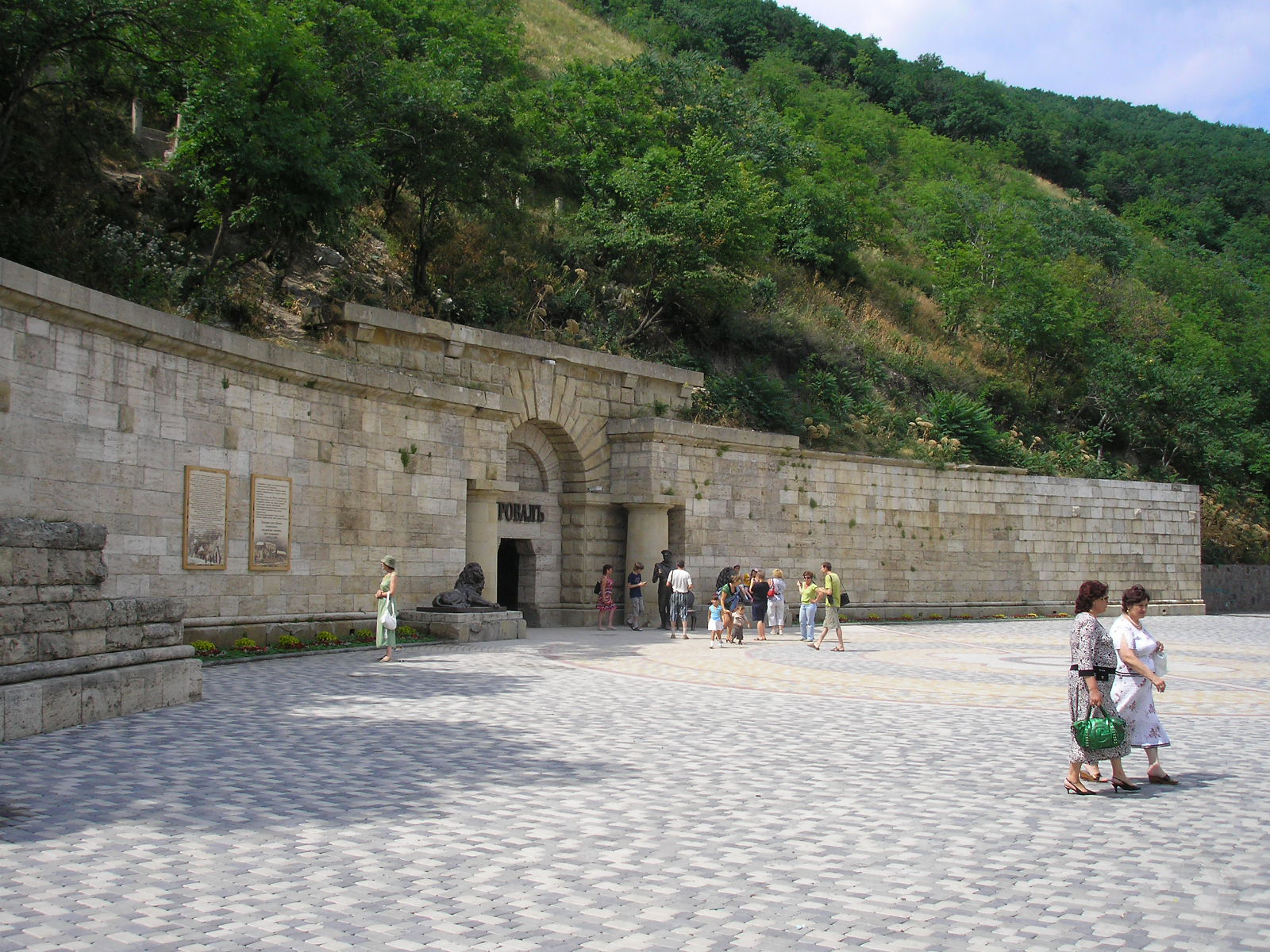 Entrance to mineral lake Proval in Pyatigorsk, Russia.